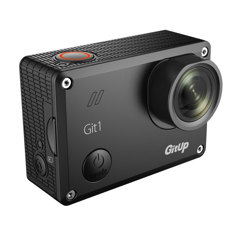 GitUp Git1